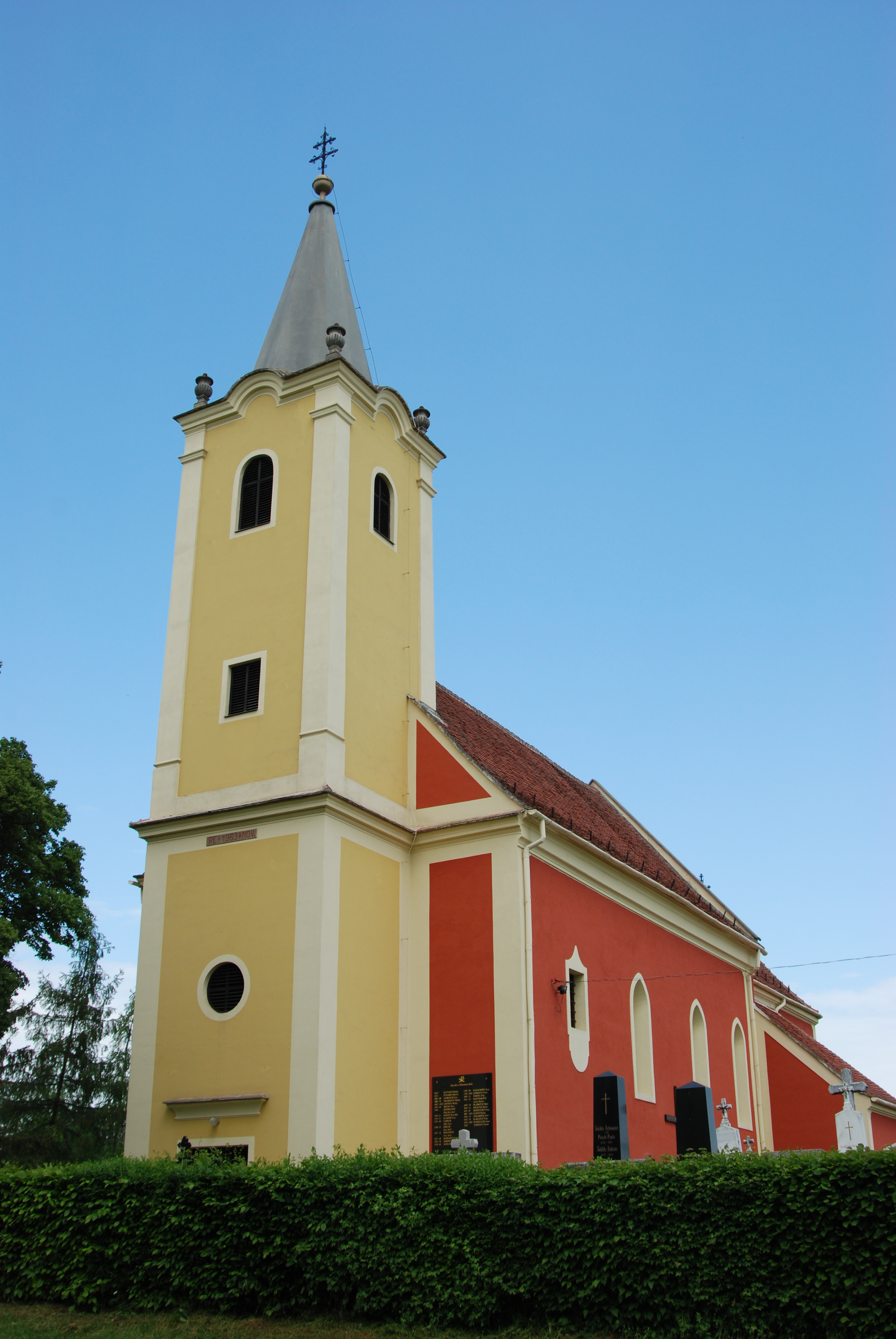 Szentpéterfa Church